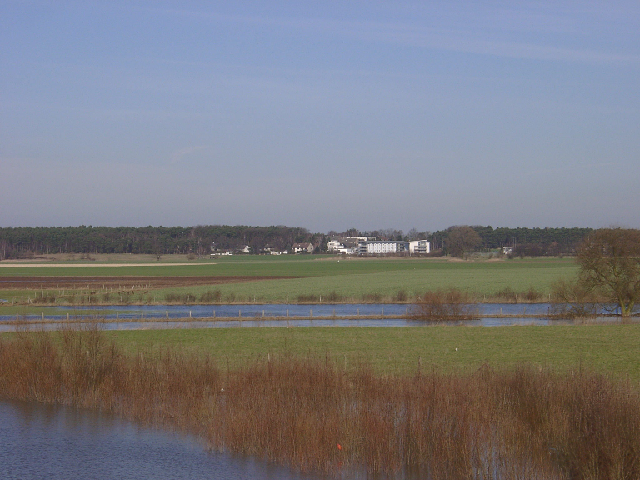 Garbsen Lein river